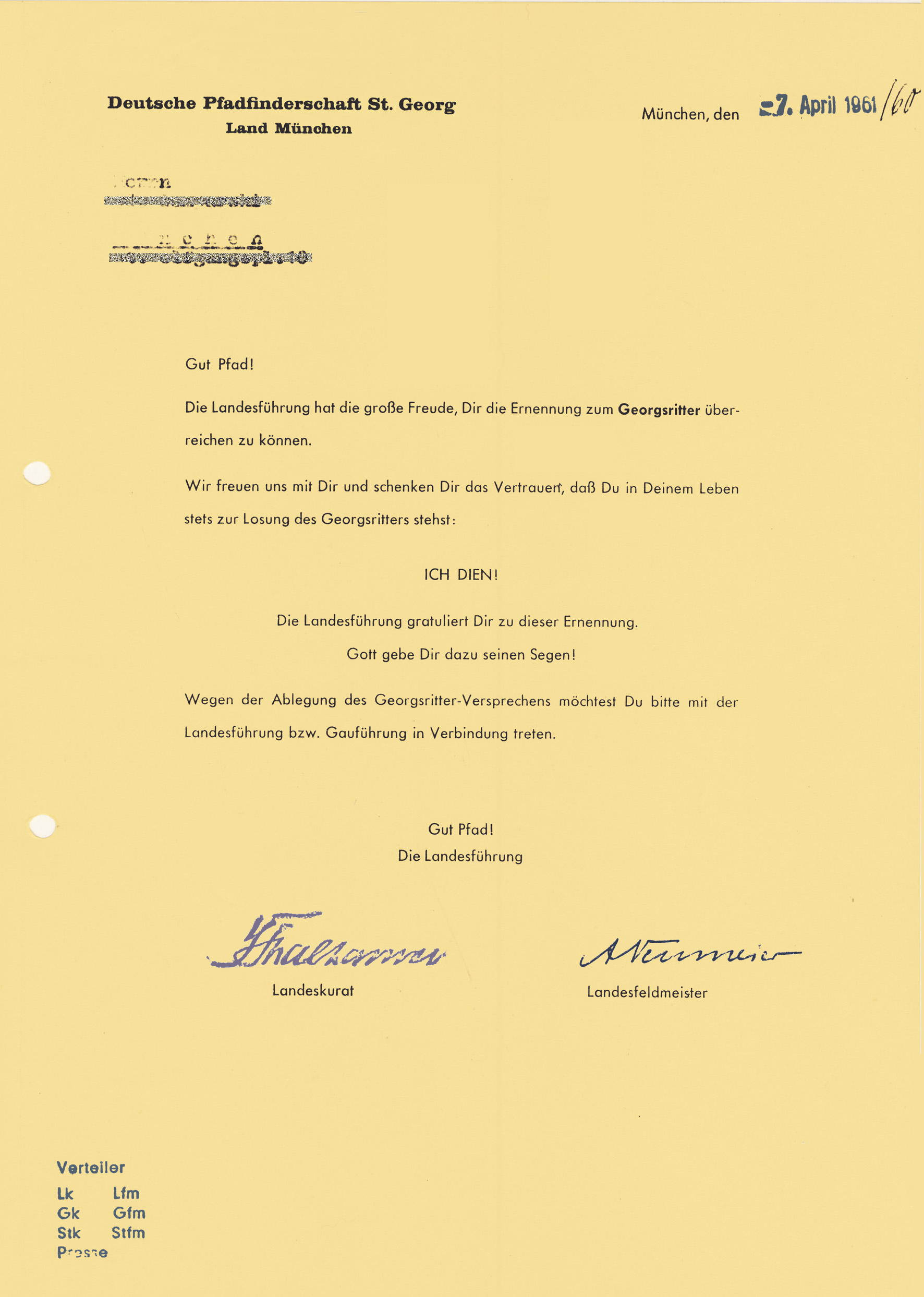 A old german scout document for Rover Scouts from the Deutsche Pfadfinderschaft Sankt Georg (DPSG) from 1961